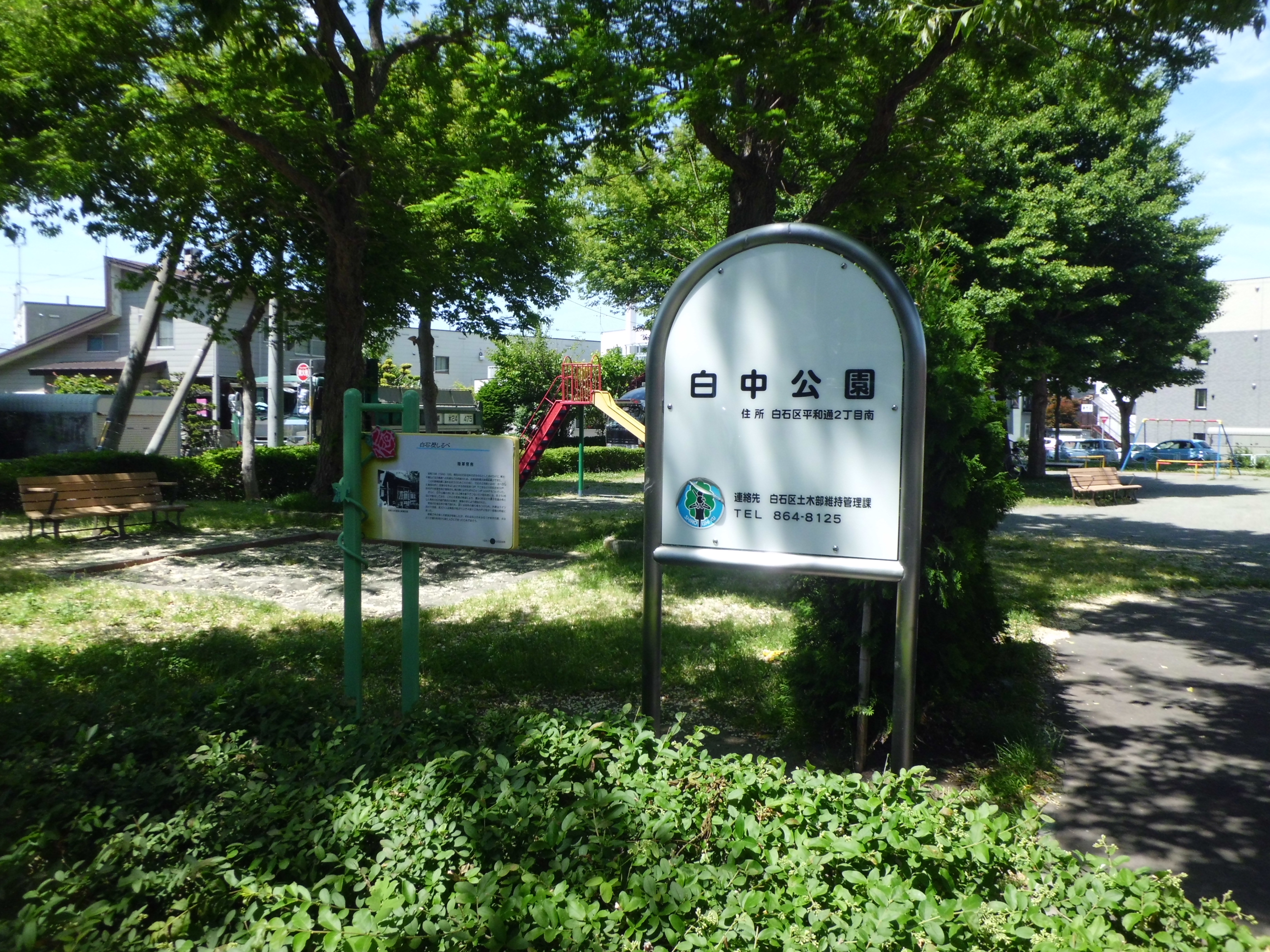 Hakuchu Park of Sapporo